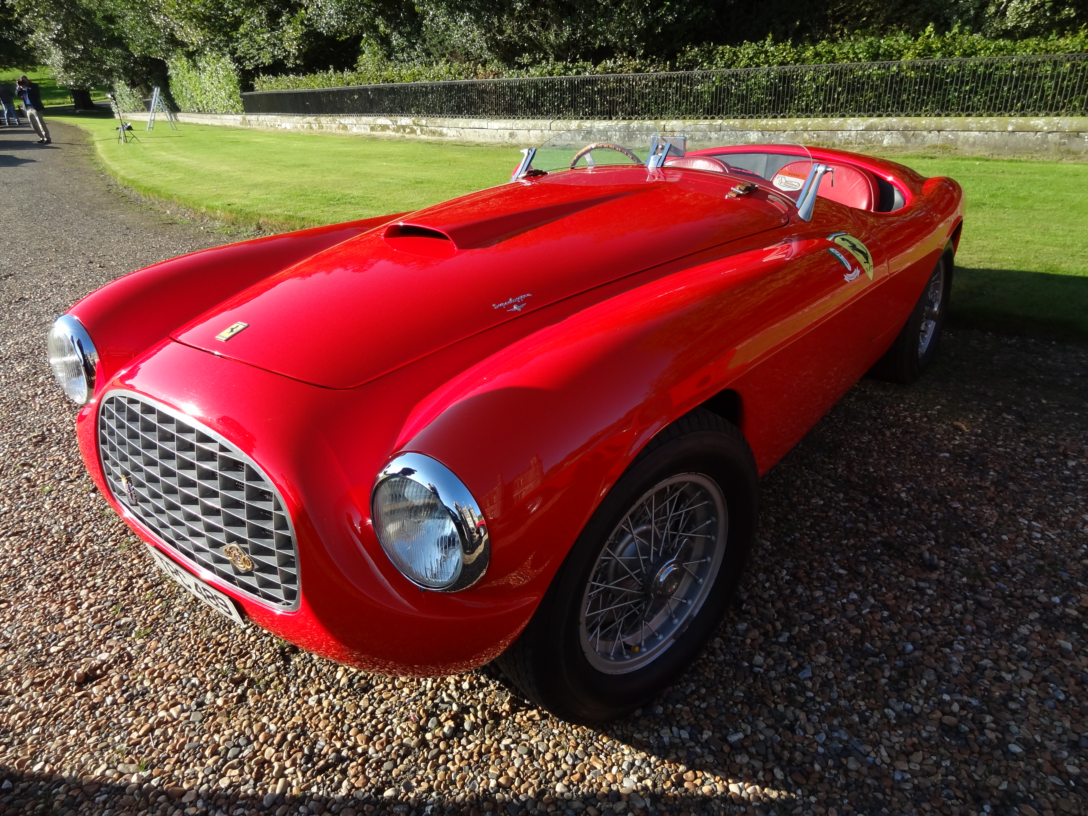 Ferrari 212 "Touring barchetta" replica, s/n 0165EL which originally was a 212 coupe by Abbott. [21136089939